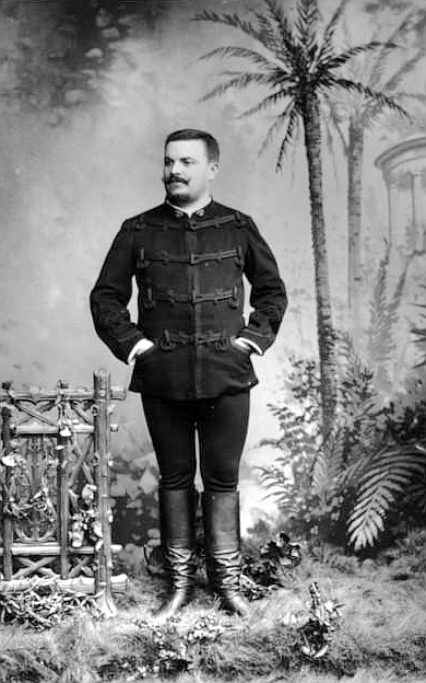 Jean-Alexandre Talazac (1851-1896) as Gérald in Lakmé by Léo Delibes.